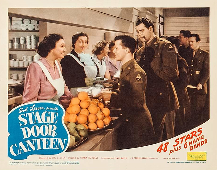 Lobby card for the 1943 film, Stage Door Canteen Left to right: Katharine Cornell, Aline MacMahon, Dorothy Fields, Lon McCallister, Michael Harrison